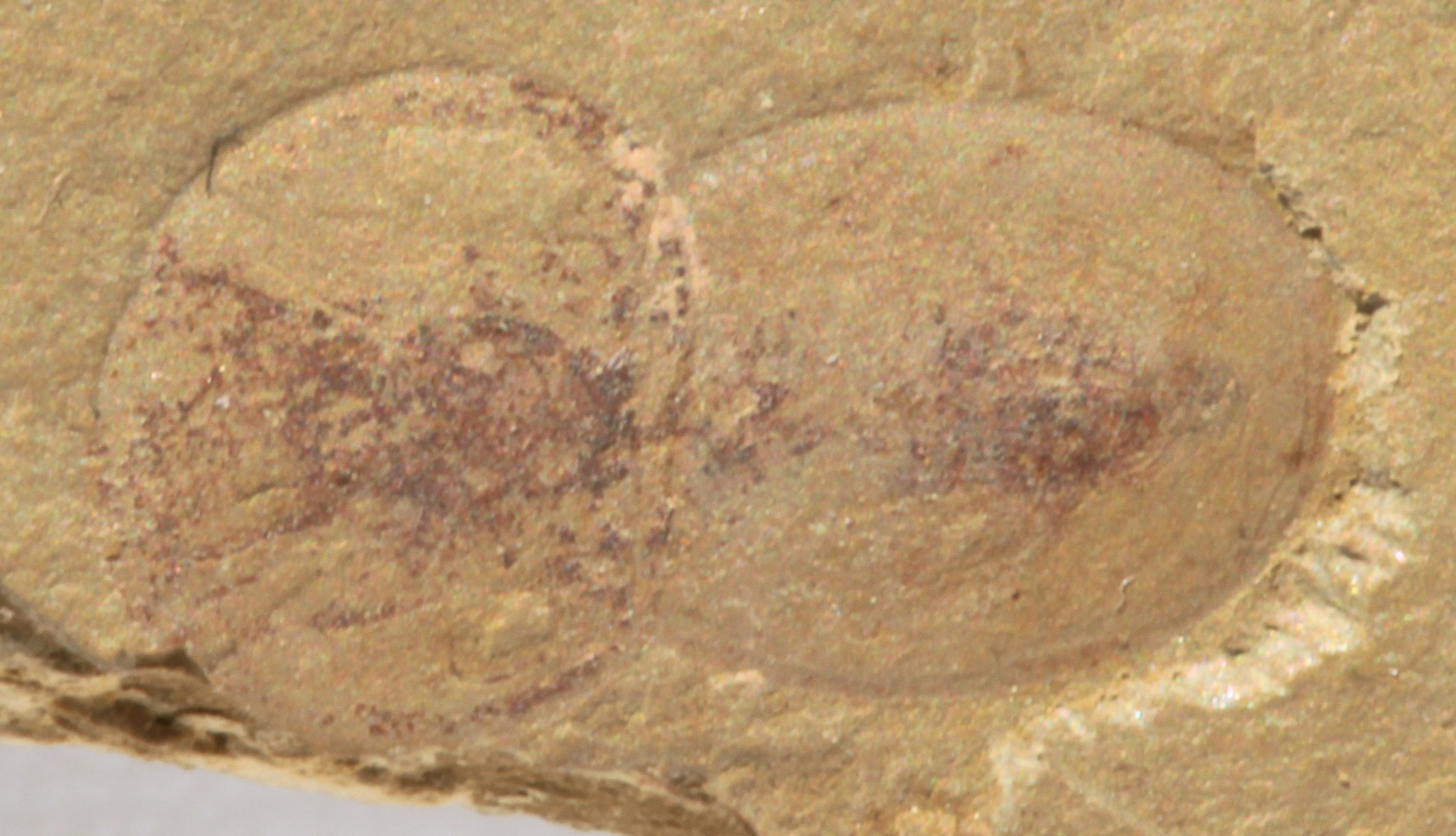 Presumably Naraoia taijiangensis, Order Nectaspida, Family Naraoiidae, 12mm front to back, dorsal view, collected at Chengjiang?, Yunnan, China, from the middle Lower Cambrian (Stage3)